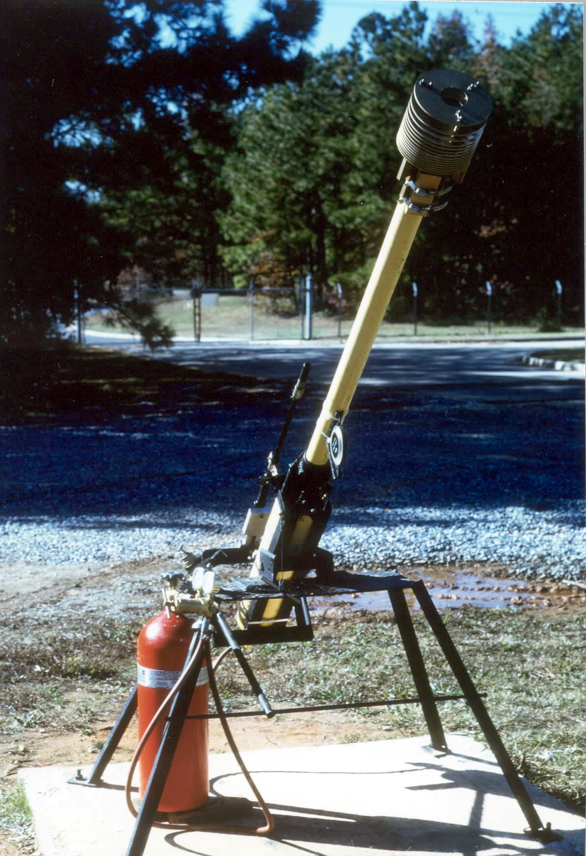 Indirect Fire Terminal Effects Cue pneumatic launcher developed by R.C. Michelson for US Army CDEC